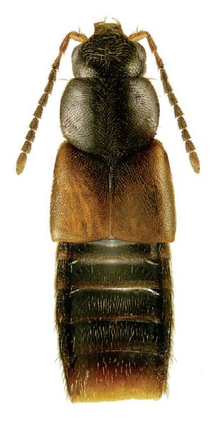 Philhygra botanicarum